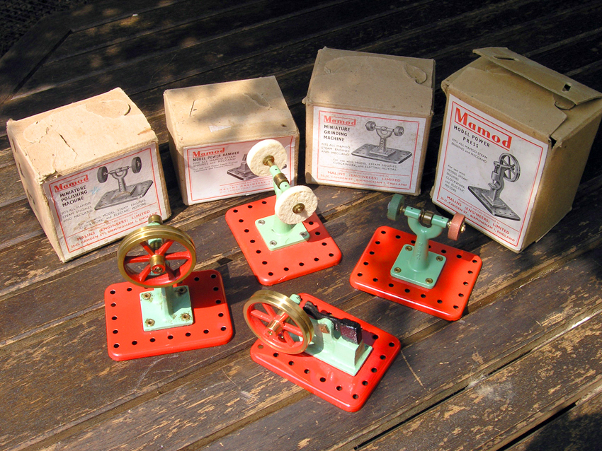 The four Mamod workshop tools complete with their white label boxes taken in bright sunshine.